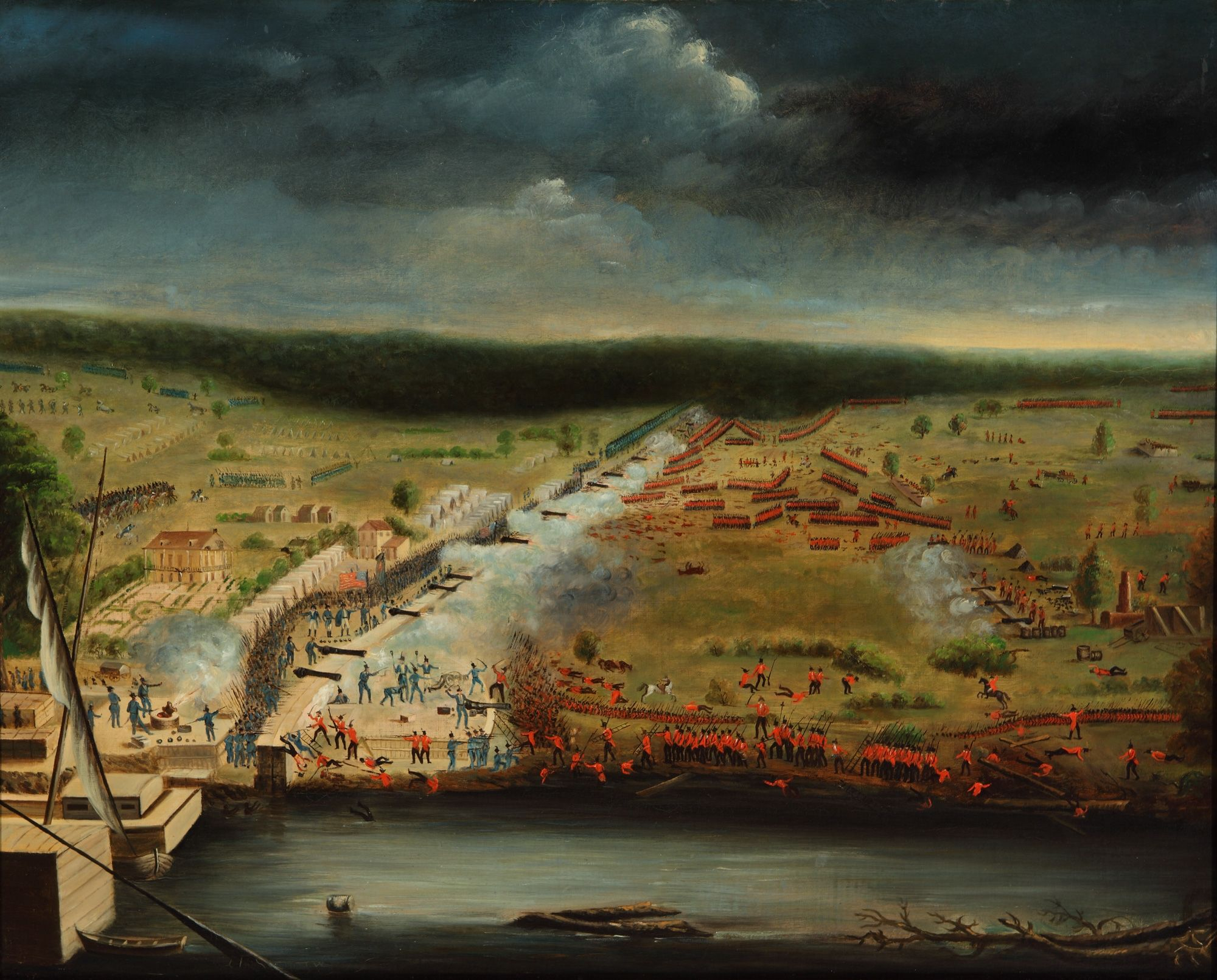 Battle of New Orleans, Jean Hyacinthe de Laclotte. New Orleans Museum of Art. 29 1/2 x 36 in. (unframed). Oil on canvas.